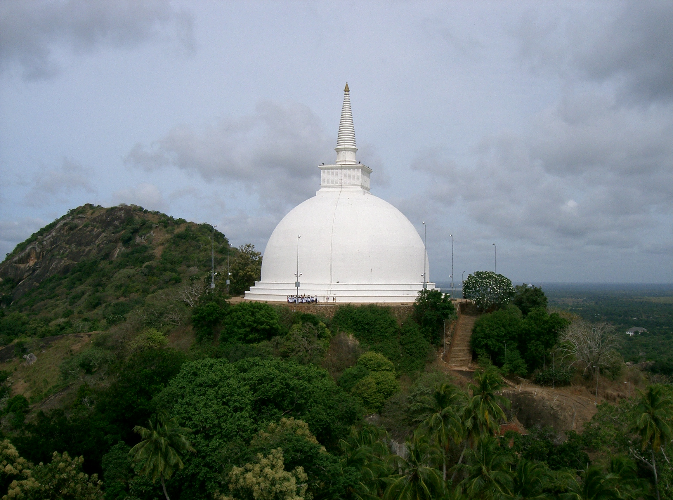 Contributed by author